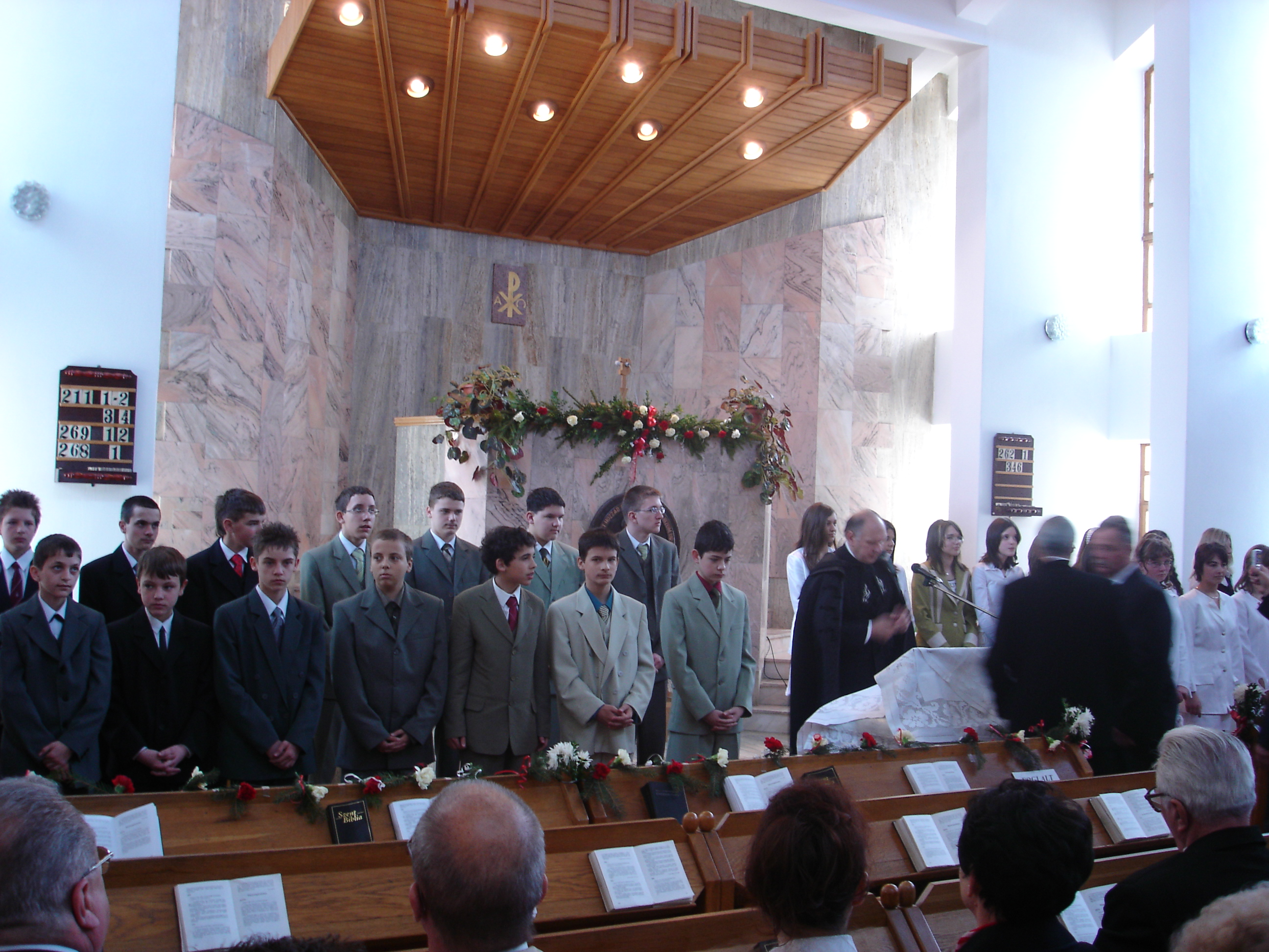 Confirmation in 2007 in the Alsóvárós Reformed church in Marosvásárhely